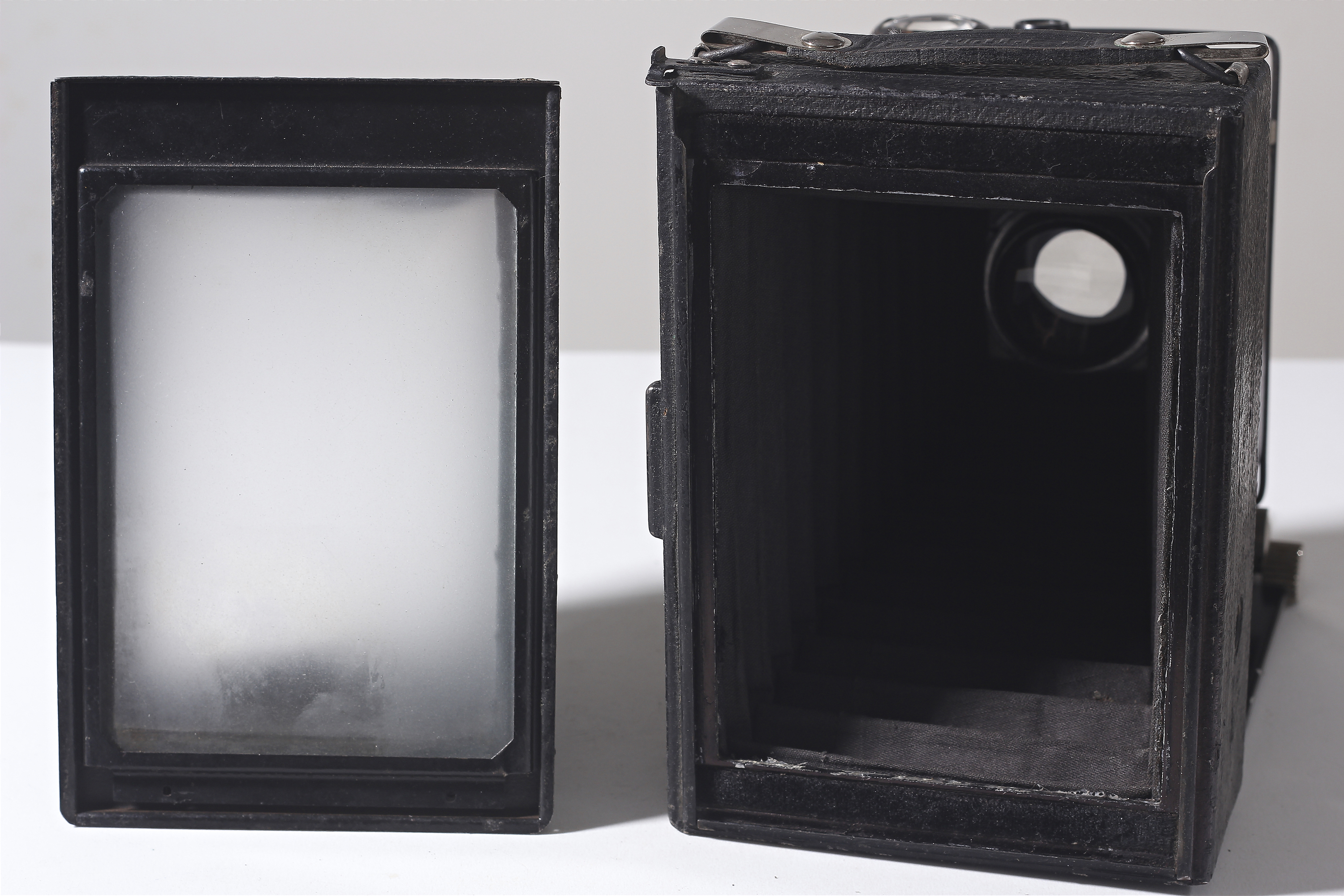 Fotocor N1. Frosted glass.